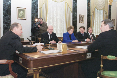 THE KREMLIN, MOSCOW. At a working meeting on pension reform.